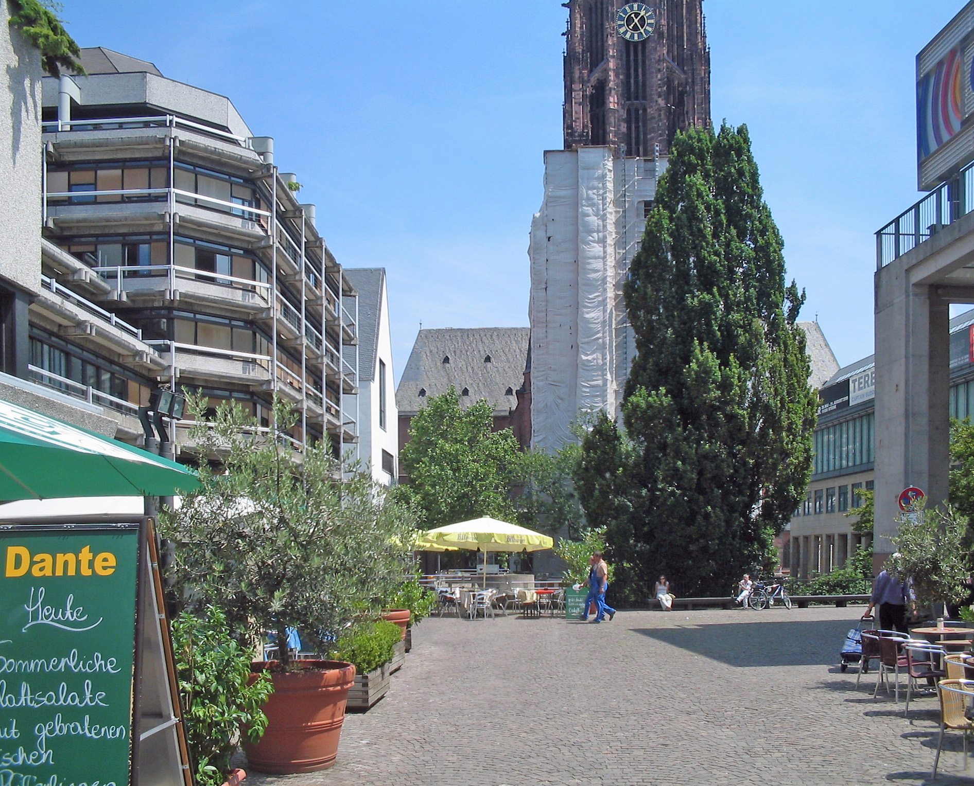 View of the Frankfurt cathedral in the back with Technisches Rathaus (technical city hall) on the left and the "Schirn" on the right